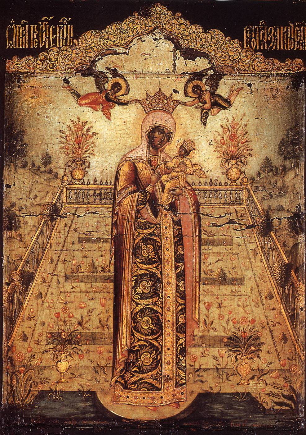 Icon of Our Lady (Theotokos) of "Convicted vineyard" type